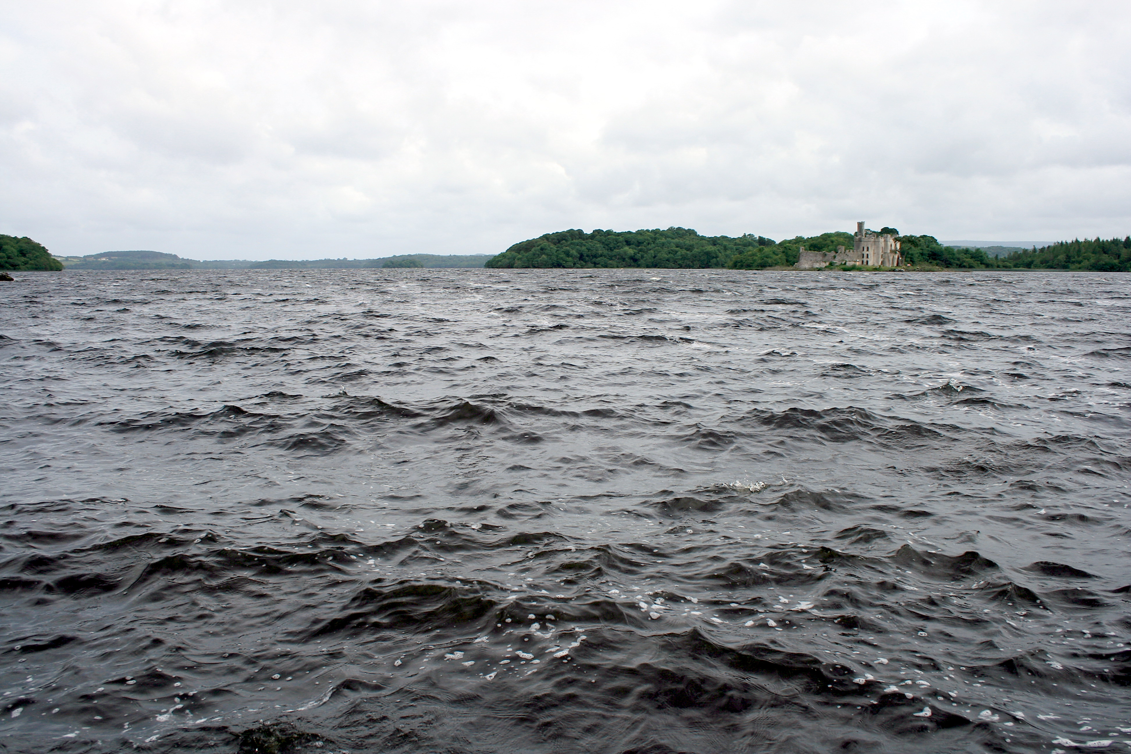 Lough Kee